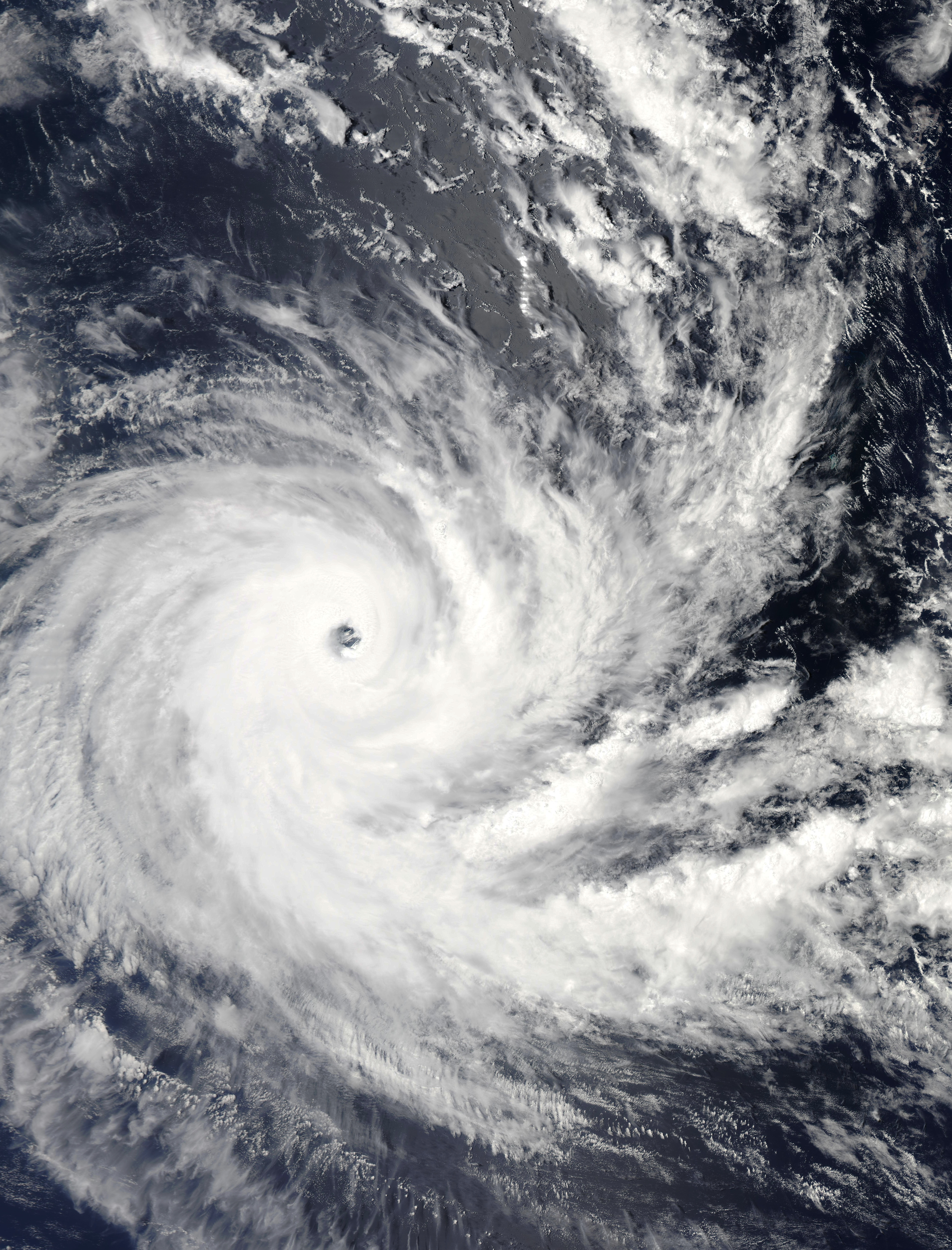 The Moderate Resolution Imaging Spectroradiometer (MODIS) on NASA’s Aqua satellite captured this natural-color image of Intense Tropical Cyclone Anais, at peak intensity, with an well defined eye, at 55 kilometers across on October 14, 2012.